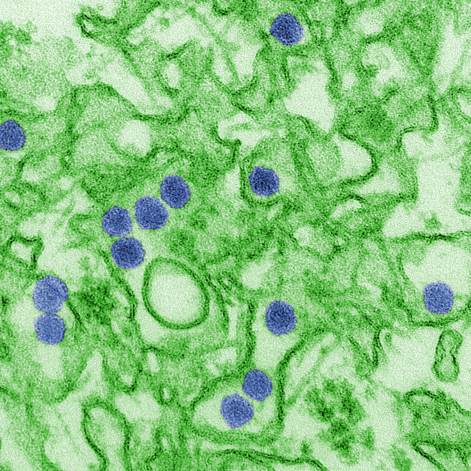 This is a digitally-colorized transmission electron micrograph (TEM) of Zika virus, which is a member of the family Flaviviridae. Virus particles, here colored blue, are 40 nm in diameter, with an outer envelope, and an inner dense core.